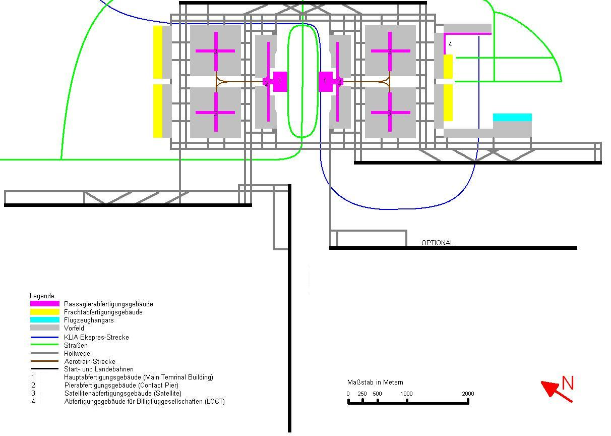 masterplan of Kuala Lumpur International Airport